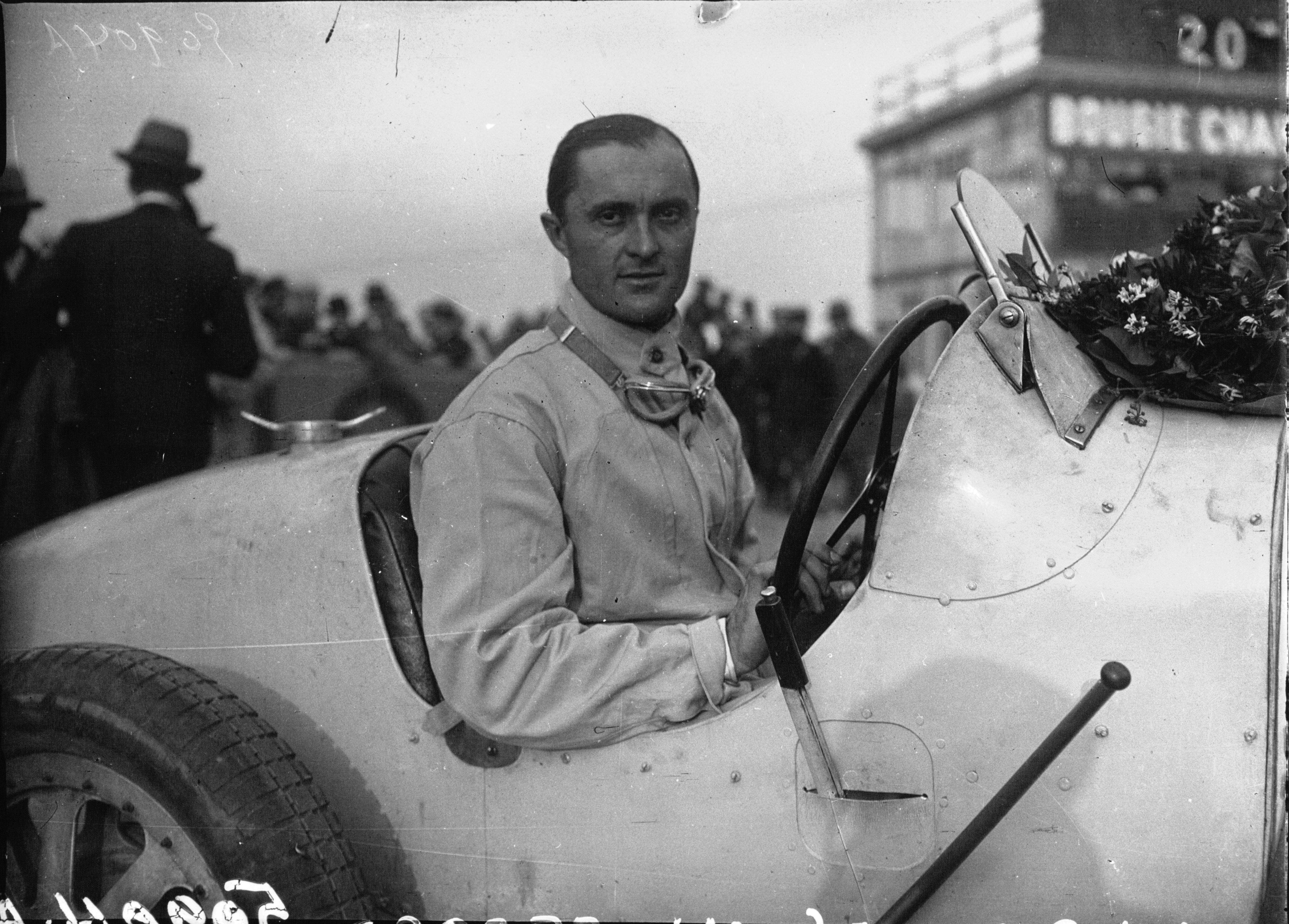 Louis Chiron in Montlhéry in 1927